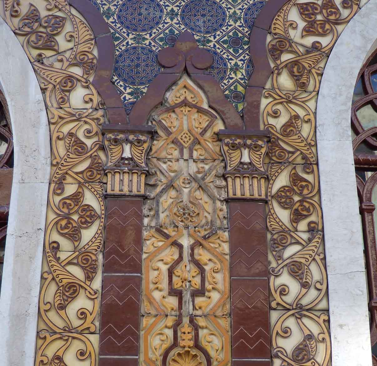 Azulejo - Neo Arabe house (Neo-mudéjar) - Oporto - Portugal